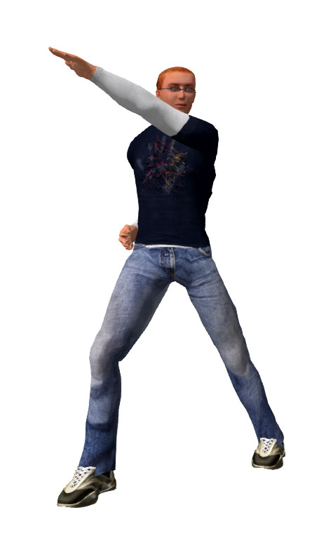 Transform gesture of Masked Rider 1